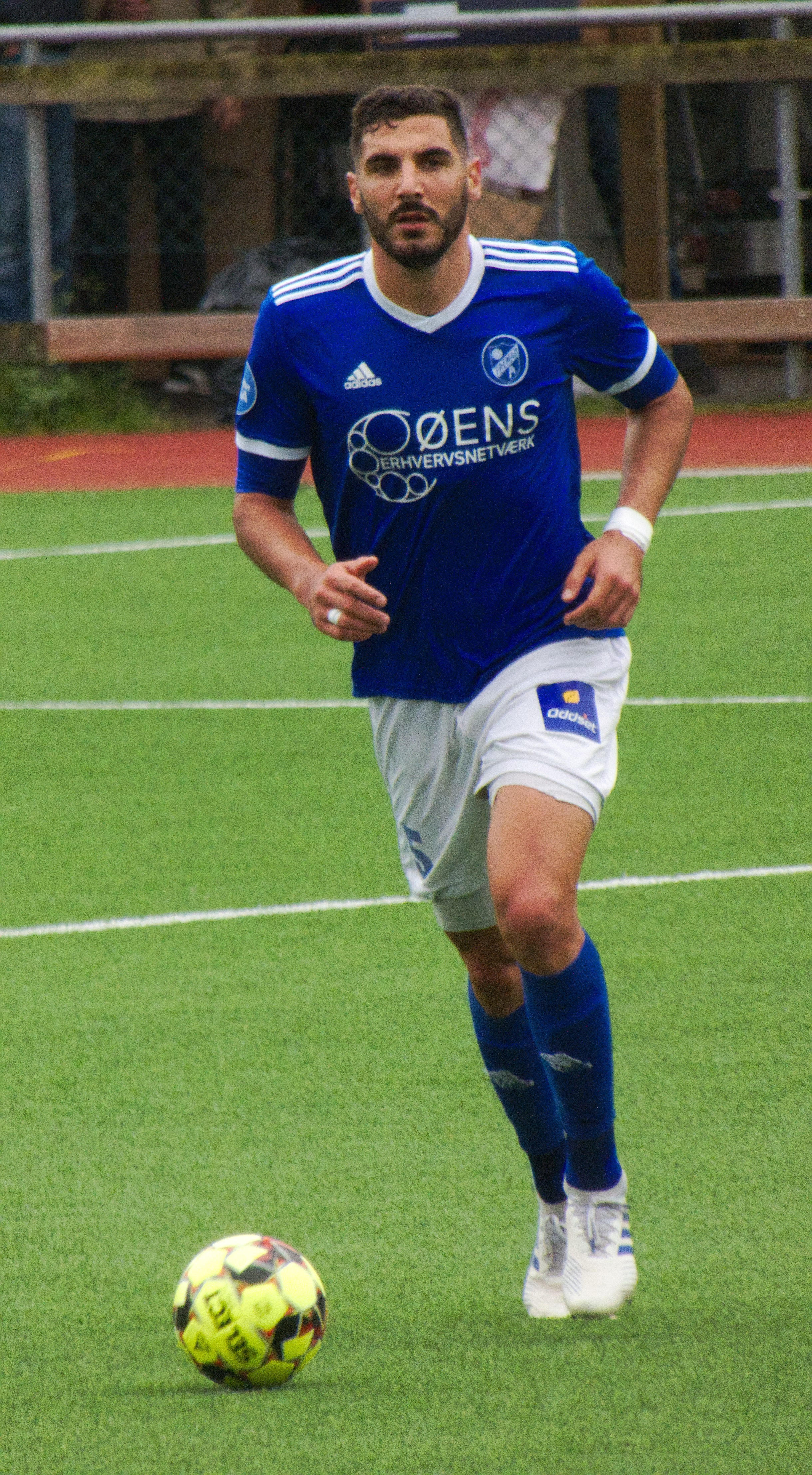 BK Fremad Amager defender Nemanja Cavnic with the ball.